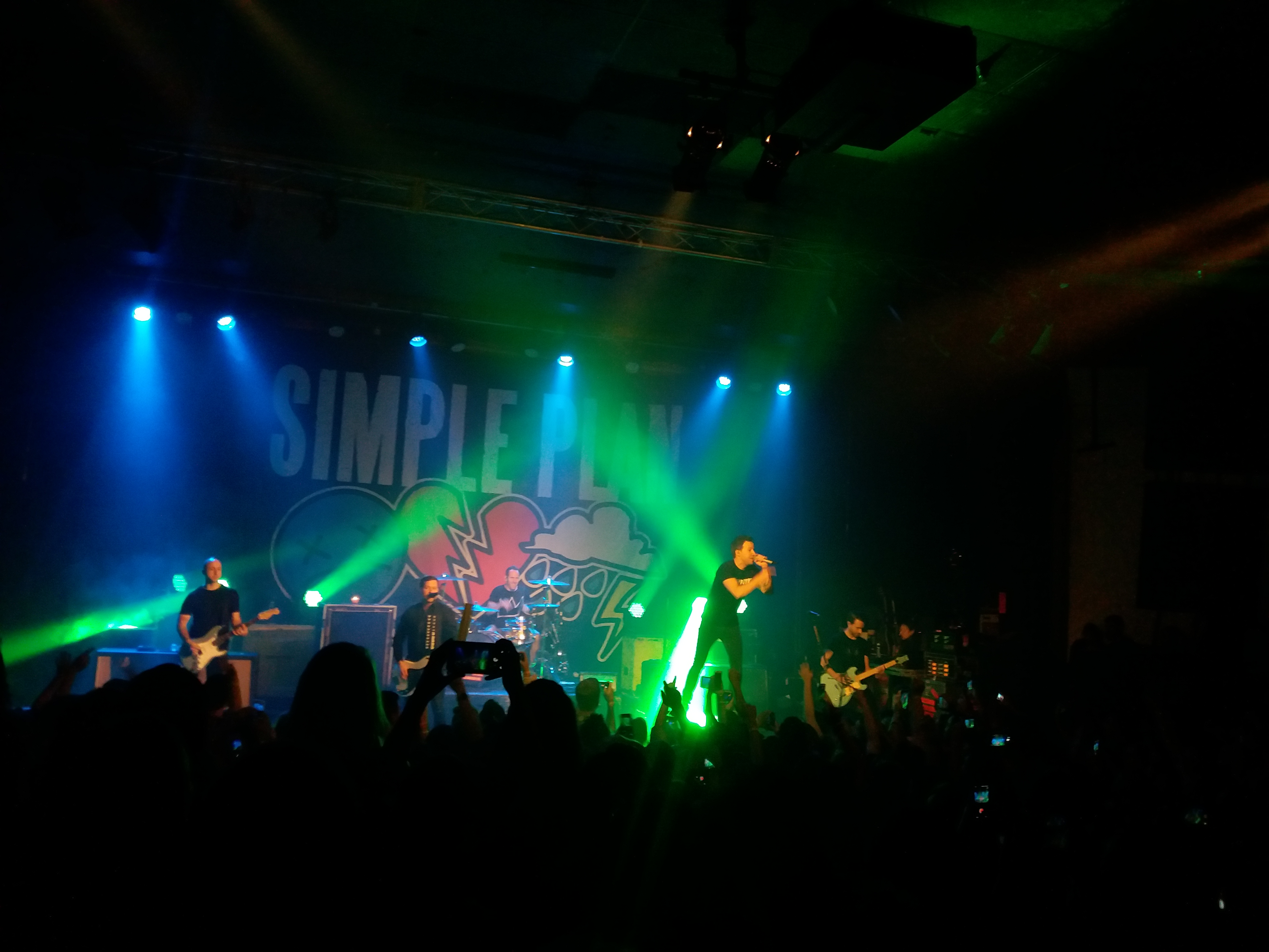 Simple Plan playing at the Granada Theater in Lawrence, Kansas on 4-8-17